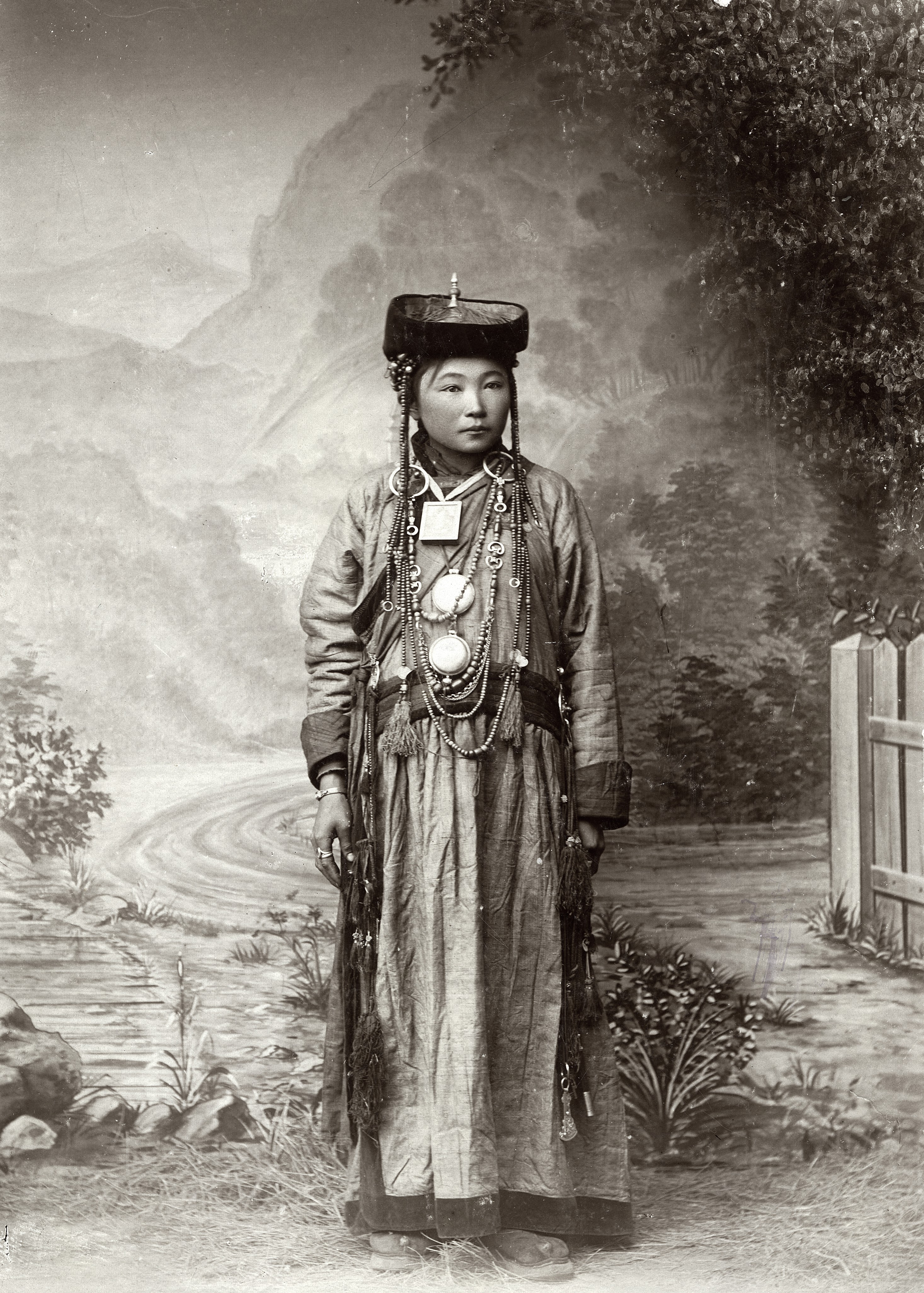 A young Buriat woman from Aginskaia Duma